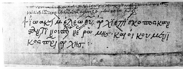 Signature of Ecumenical Patriarch Joachim I (died 1504)